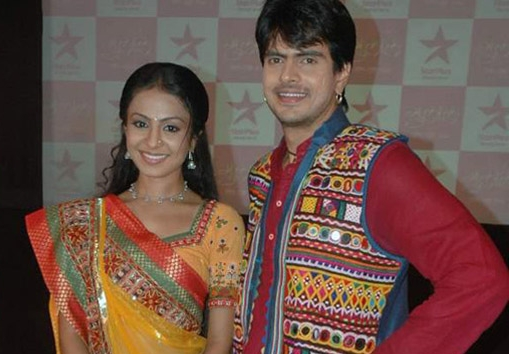 Rahil Azam and Manasi Parekh Gohil at the launch of Gulaal